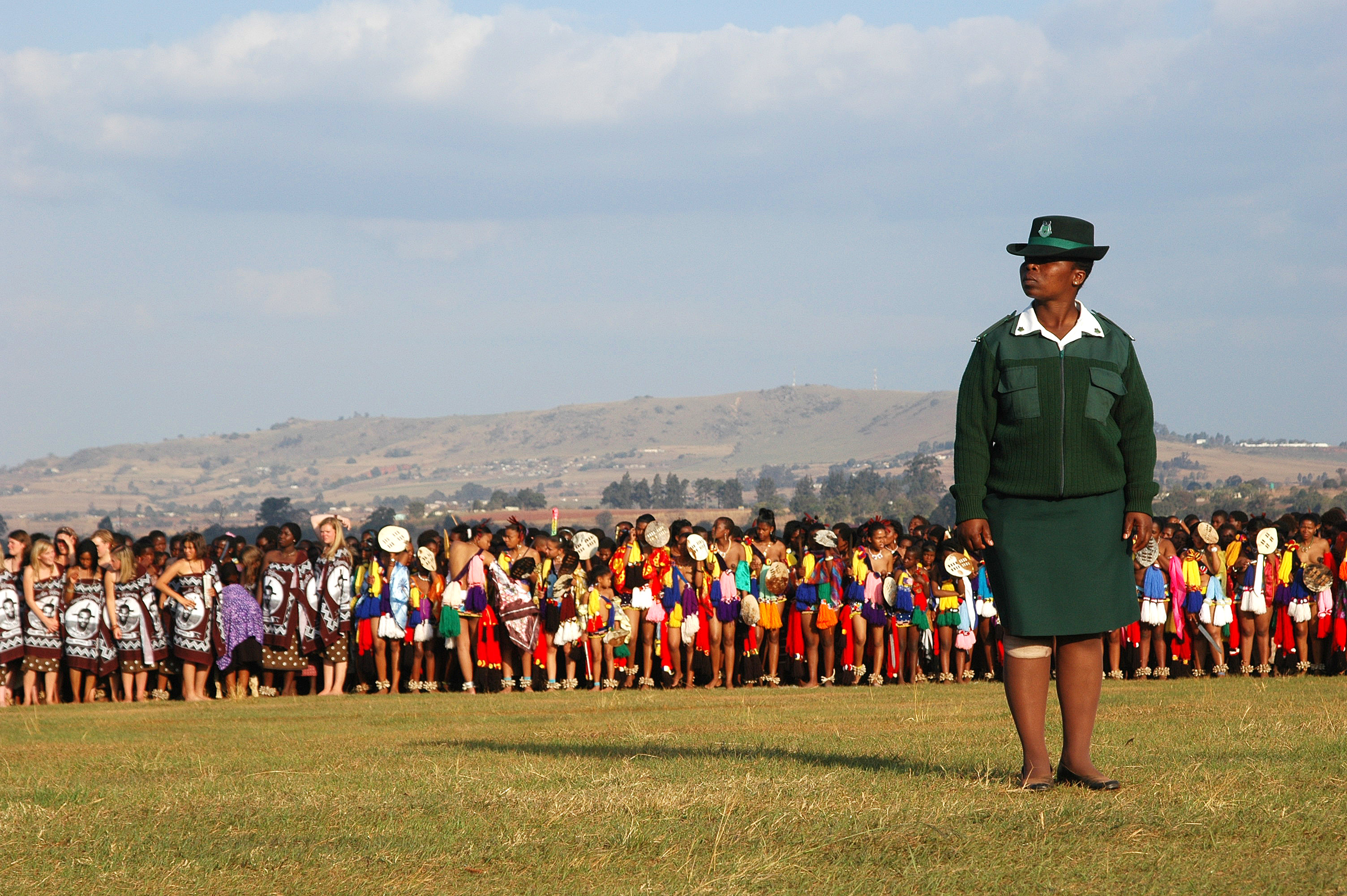 The Reed Dance Festival 2006